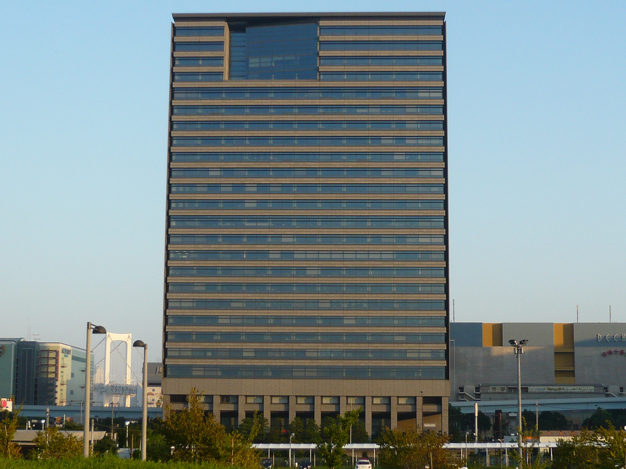 Tradepia Odaiba(トレードピアお台場) in Odaiba,Tokyo,Japan.